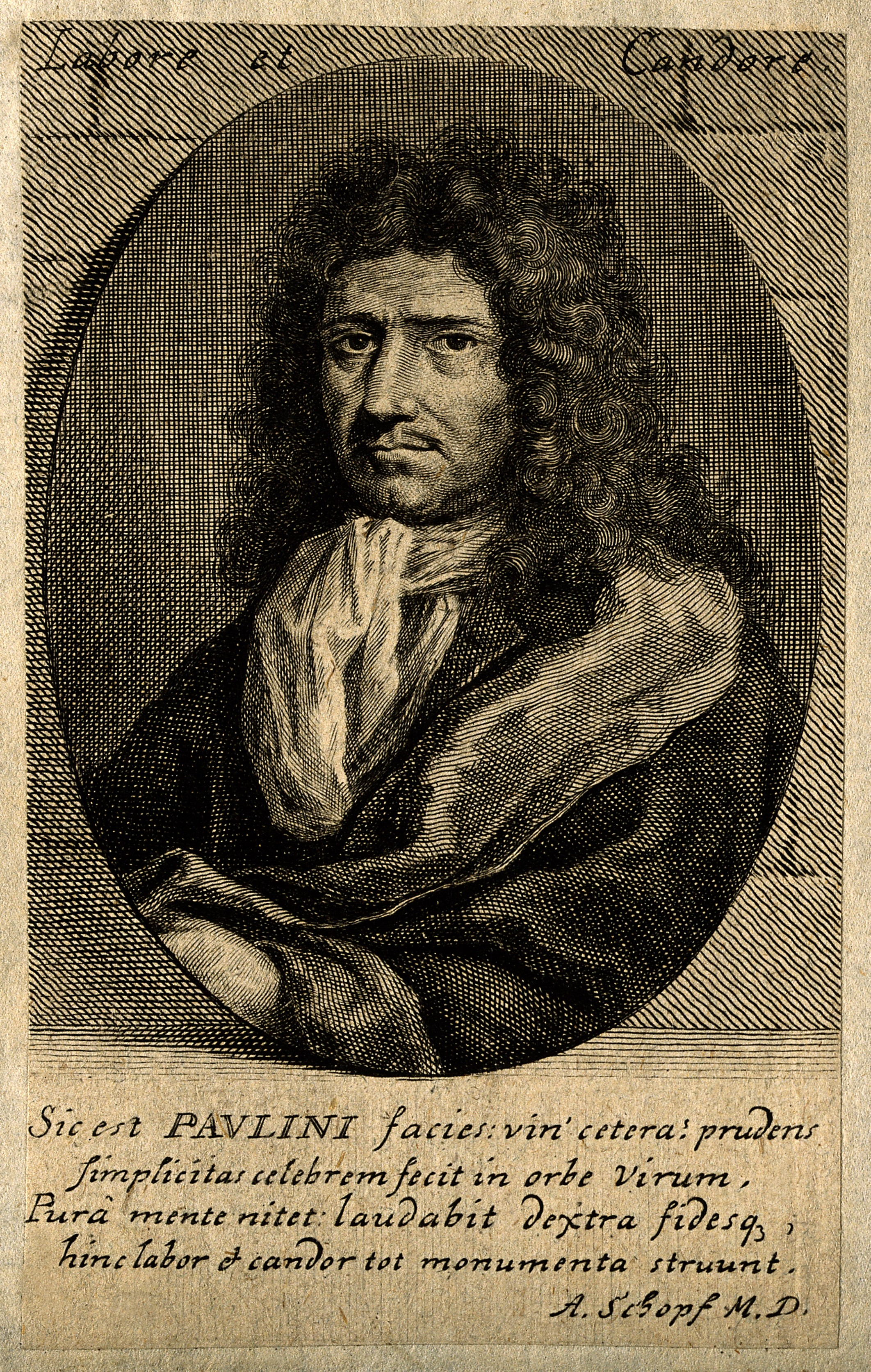 Christian Franz Paullini. Line engraving. Iconographic Collections Keywords: portrait prints; engravings; Christian Franz Paullini